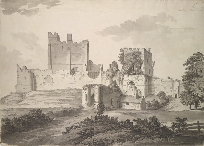 View of Prudhoe Castle in Northumberland